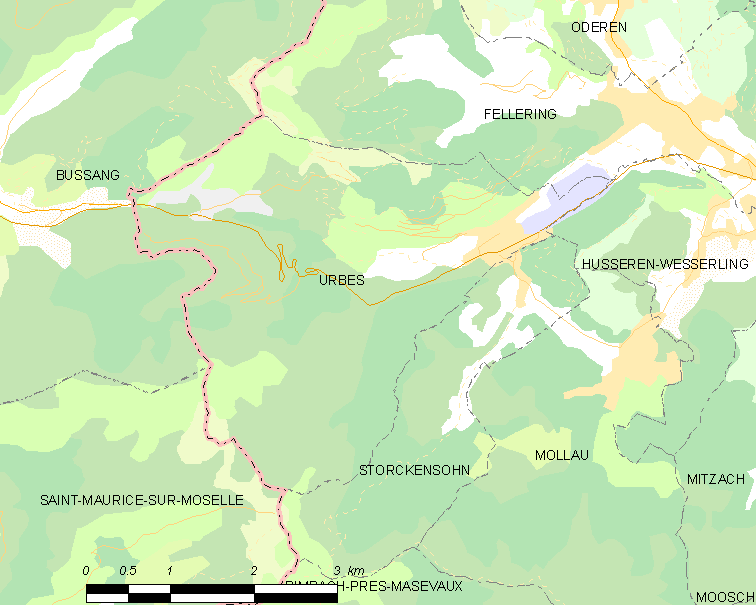 Map of French municipality